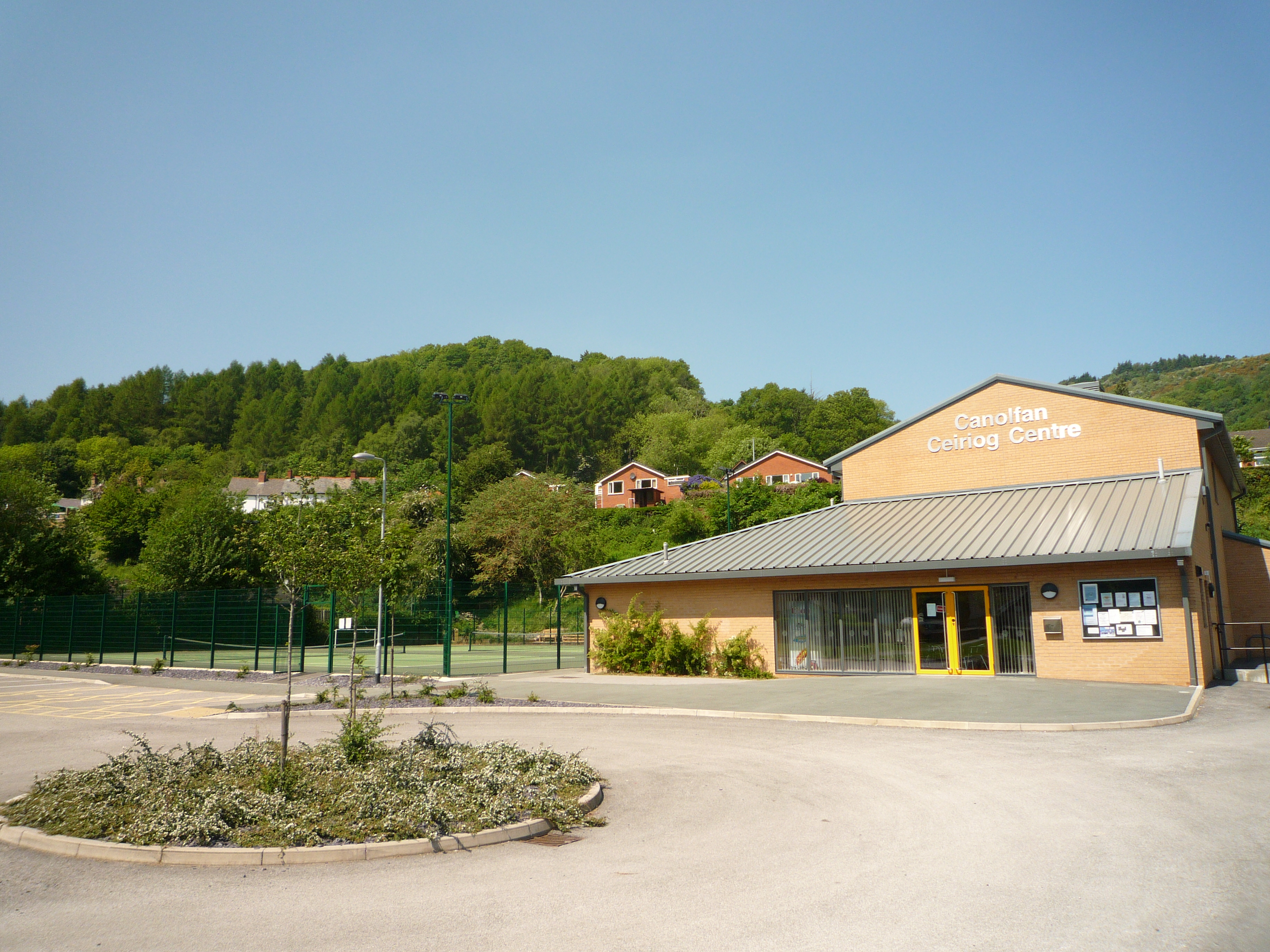 The New Canolfan Ceiriog Centre in the heart of the Ceiriog Valley